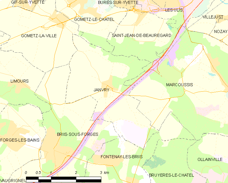 Map of French municipality Janvry